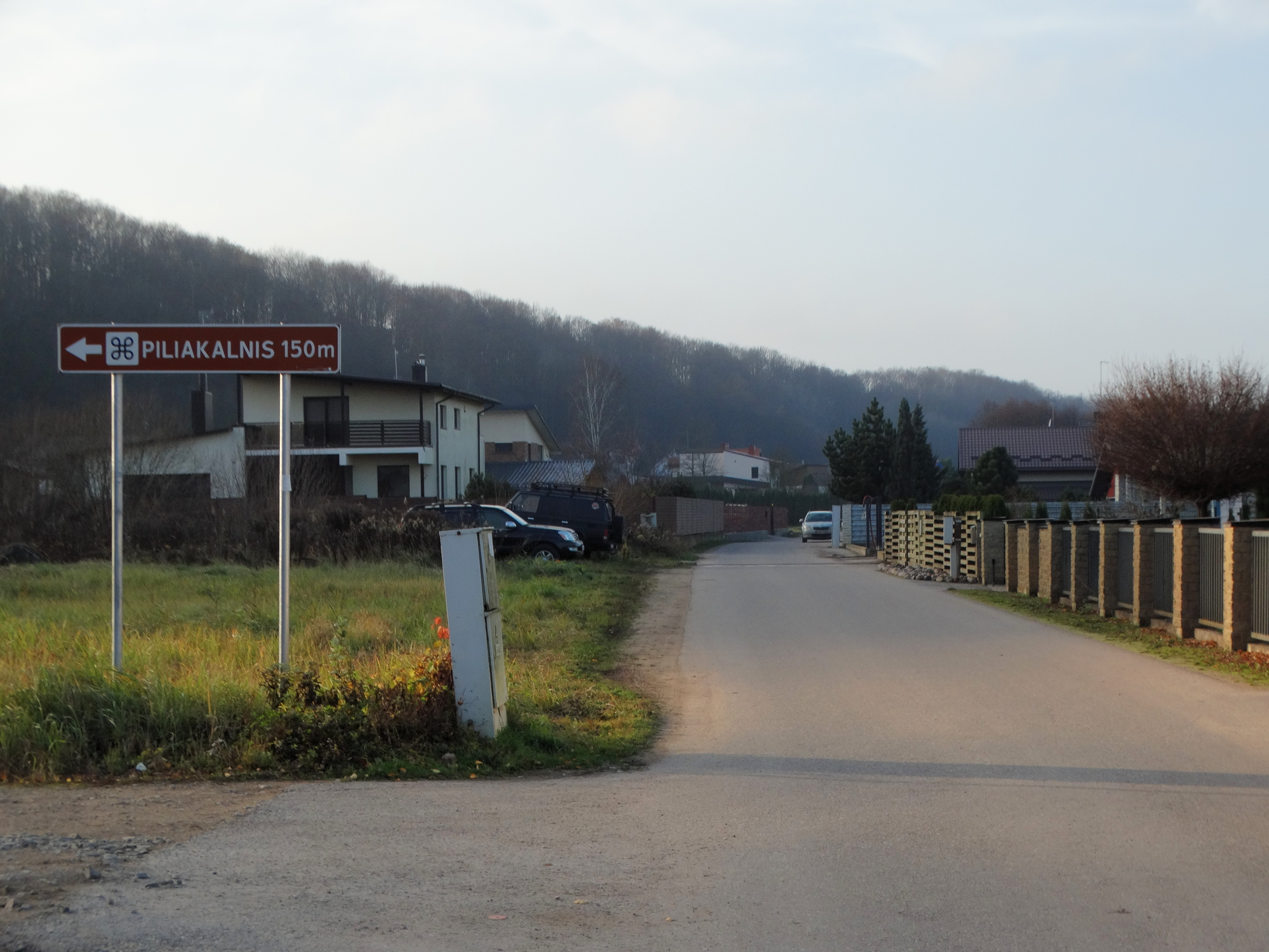 Naujasodis, sign to hillfort, Kaunas district, Lithuania